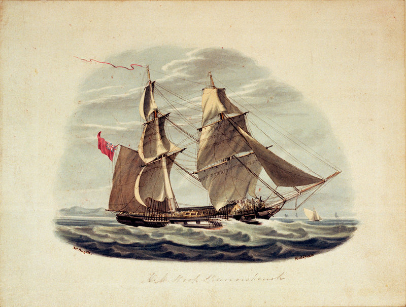 "HM Sloop 'Sparrowhawk".